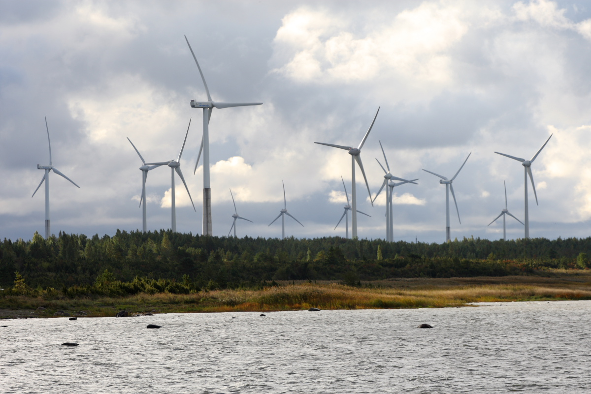 Rõuste wind farm, Hanila Parish, Lääne County, Estonia